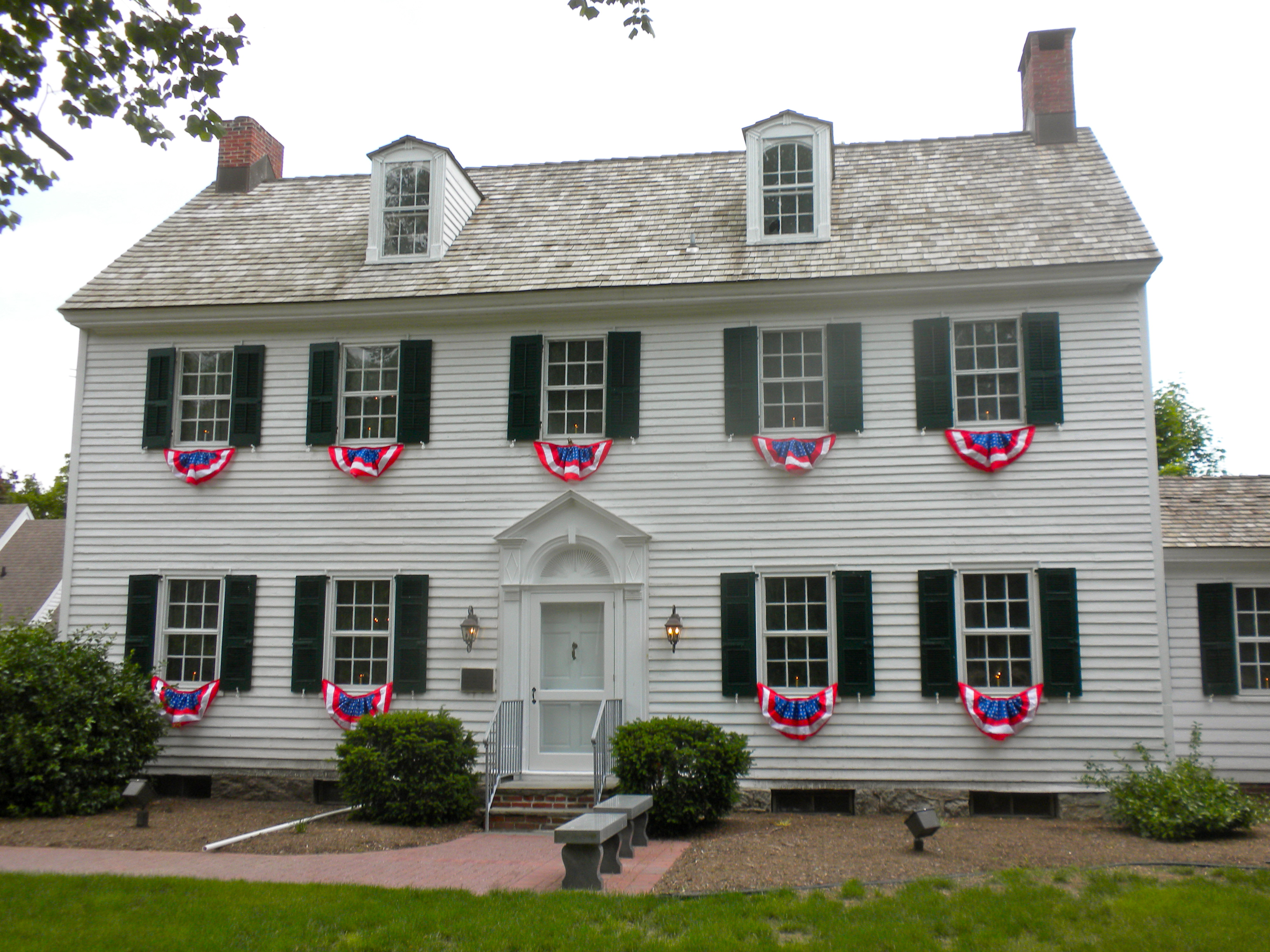 John Holmes House on NRHP since June 12, 1979. On U.S. 9 north of Cape May Court House, in Cape May County, NJ